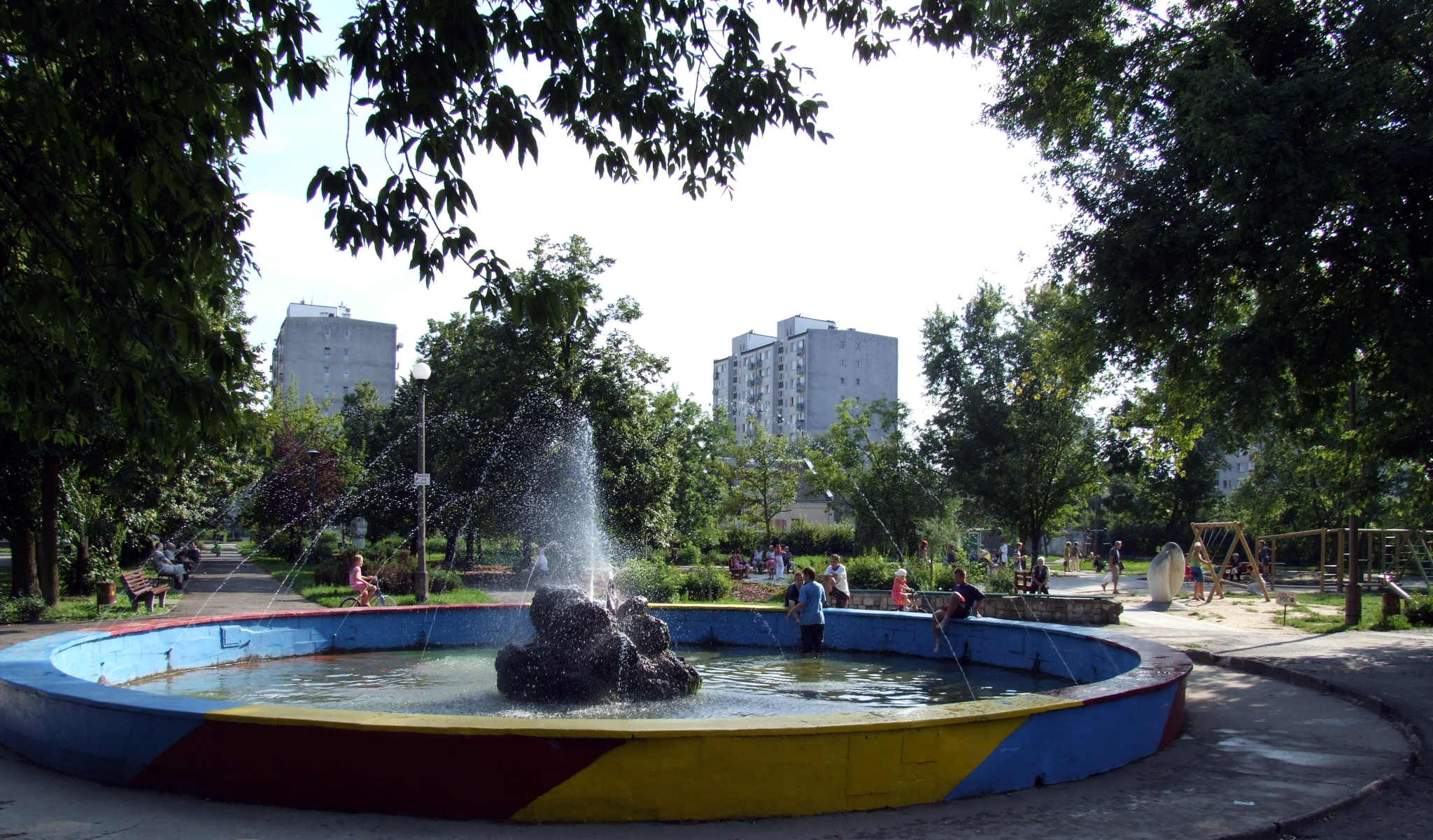 Park in 25-lecia PRL district in Ostrowiec Swietokrzyski